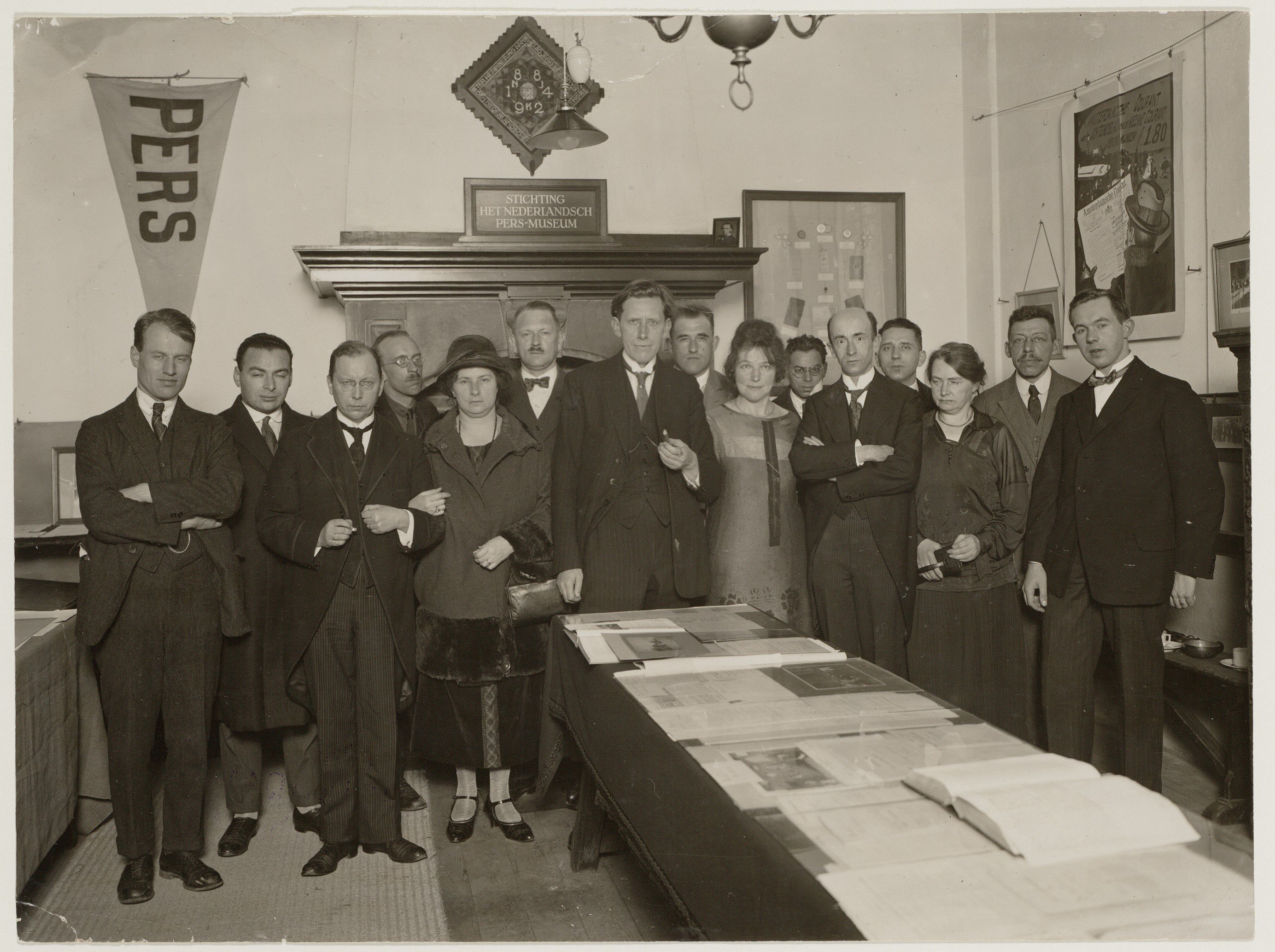 Beschrijving Nieuwezijds Kolk 28 Korenmetershuisje. 40 jaar jubileum Amsterdam Pers, bij opening van de Stichting Het Nederlandsch Persmuseum. Documenttype foto Collectie Collectie Stadsarchief Amsterdam: foto-afdrukken Datering 1 februari 1924 ca. Geografische naam Nieuwezijds Kolk Inventarissen Afbeeldingsbestand OSIM00002001146 010003006246, 04-04-2003, 14:45, 8C, 4432x2746 (400+2158), 100%, Foto=normaal c, 1/120 s, R39.7, G2.6, B2.5